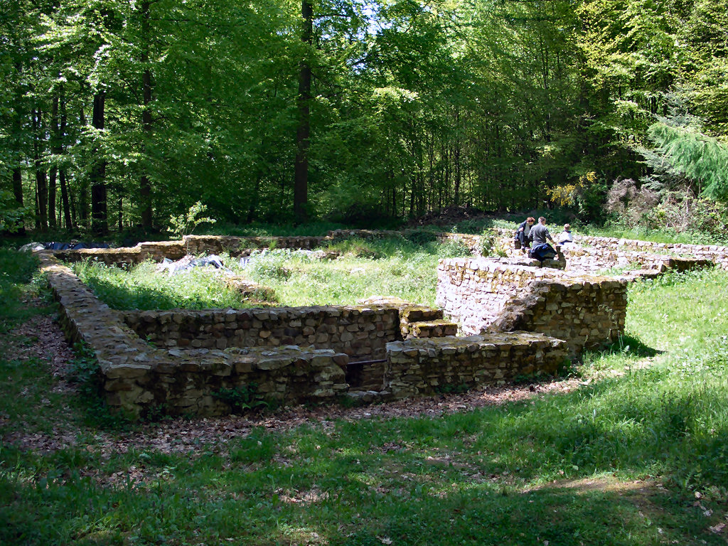 Roman Villa in Remstecken (Forest of Koblenz)